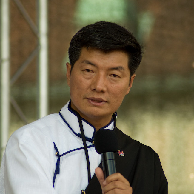 Lobsang Sangay Vienna 2012